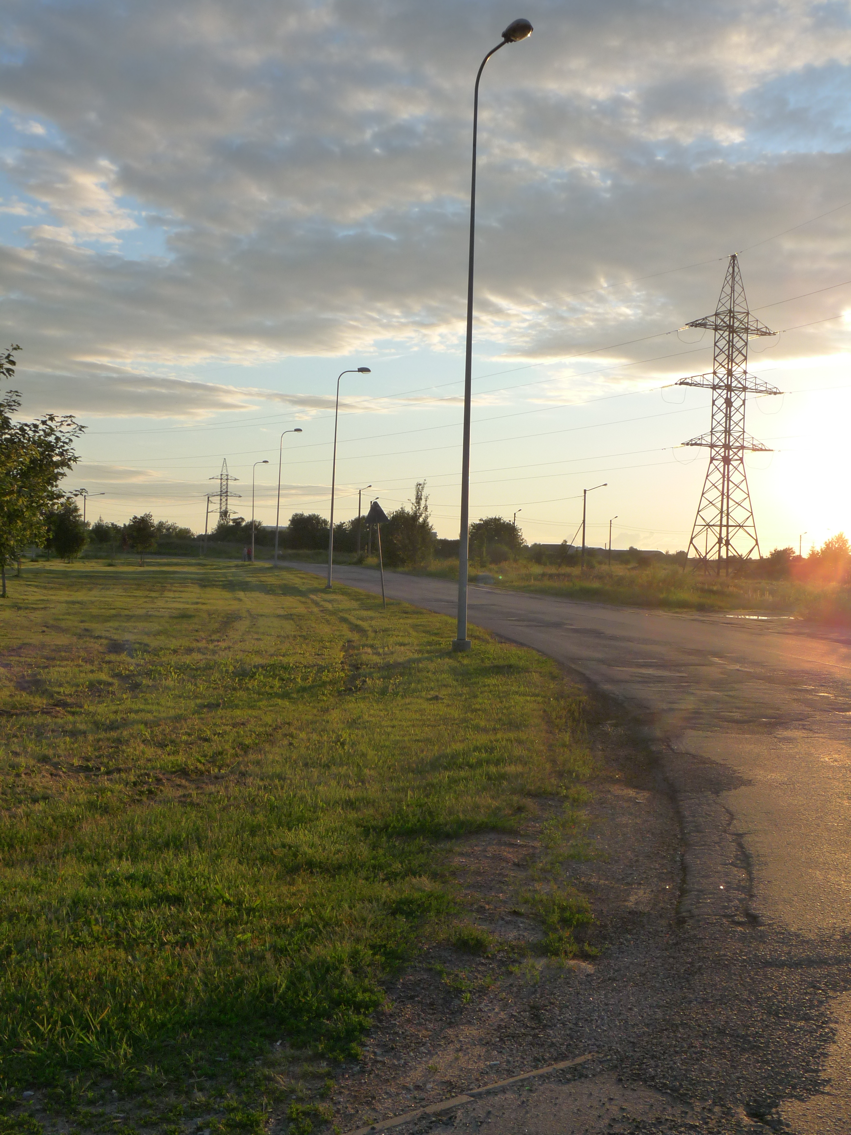 End of Liikuri street in Tallinn, Estonia.